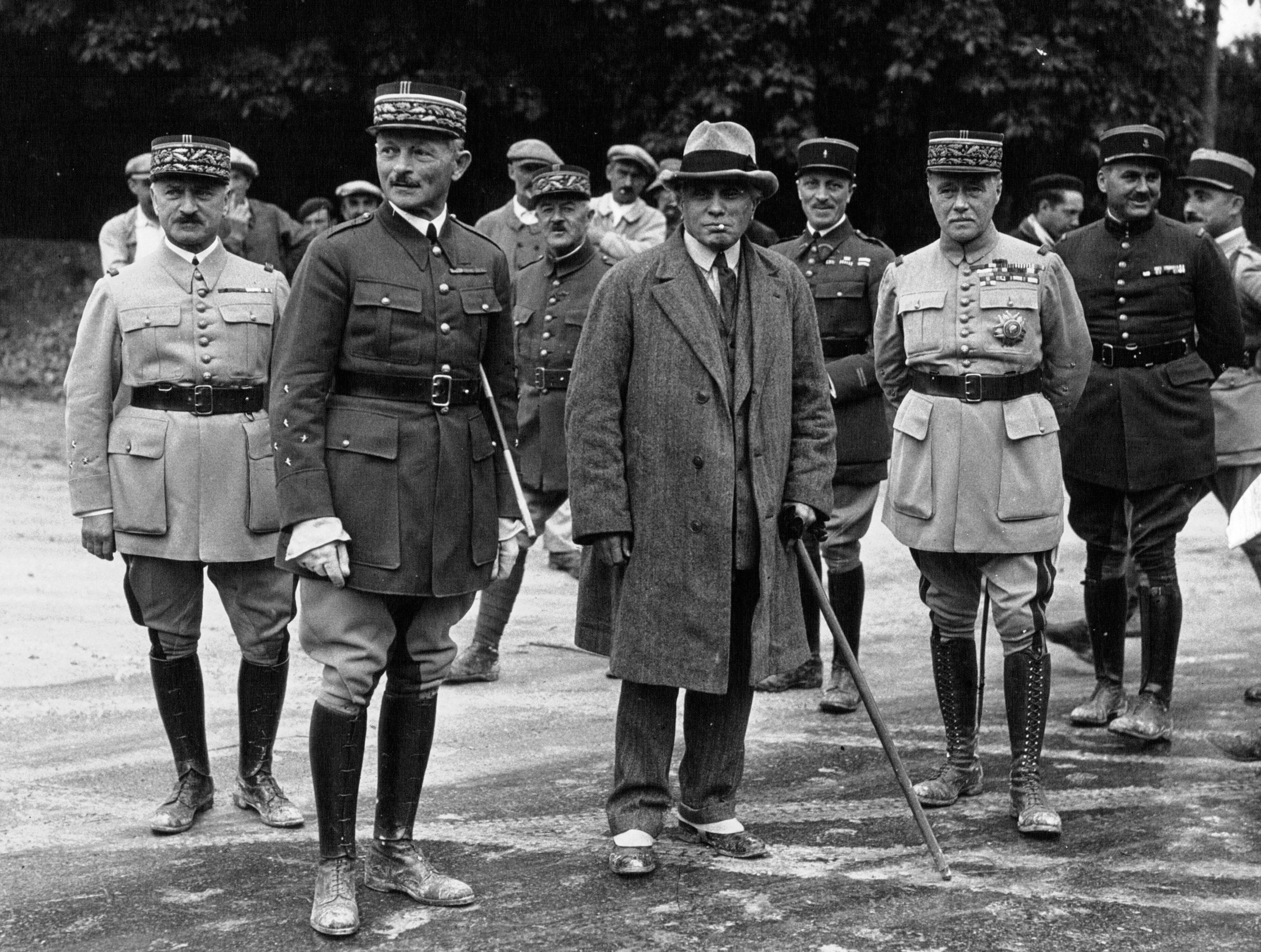 In the foreground, from left to right: Maxime Weygand, Joseph Paul-Boncour, Maurice Gamelin.